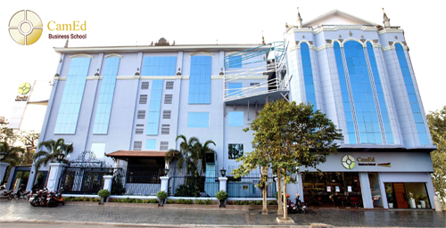 The main buildings of CamEd Business School